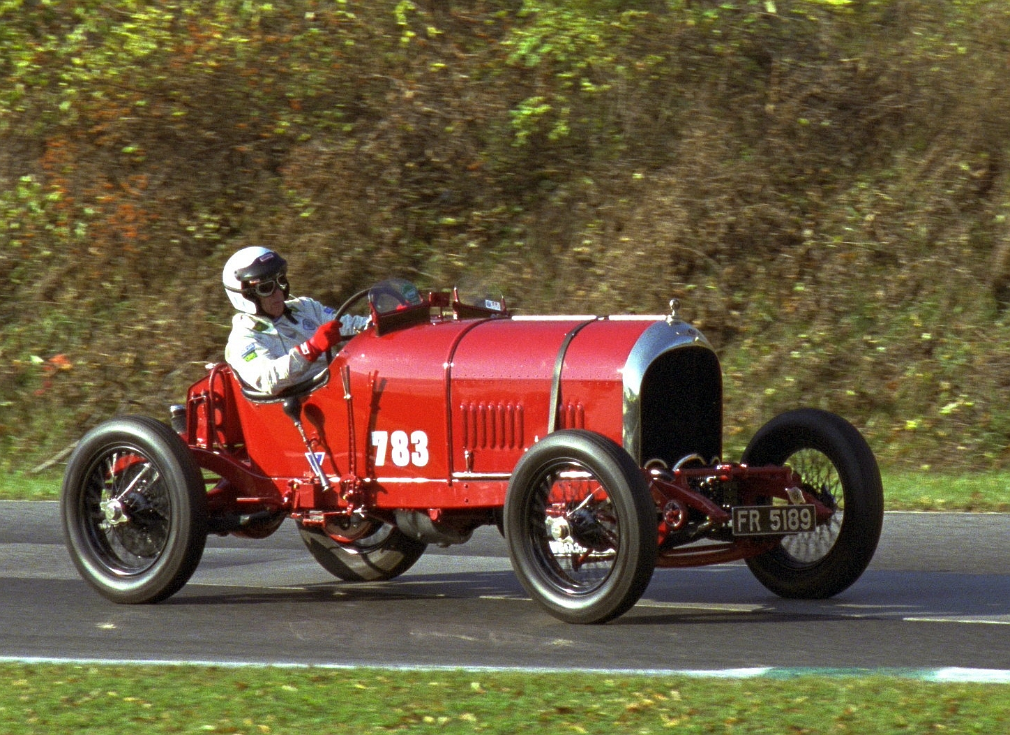 1924 3-litre Bentley on track at Lime Rock Park, 2000